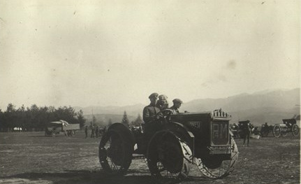 Pavesi P4M in Bulgaria